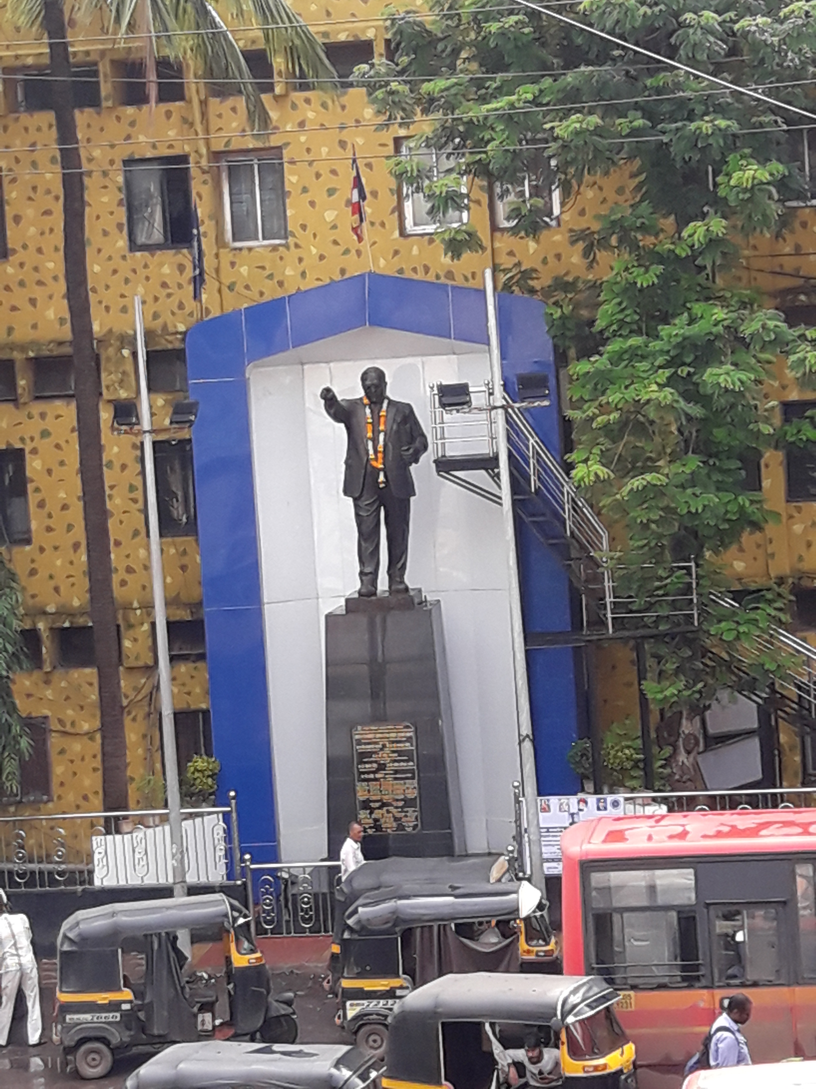 Dr.Babasaheb Ambedkar statue at Bajiprabhu chowk, Dombivli East, Dombivli